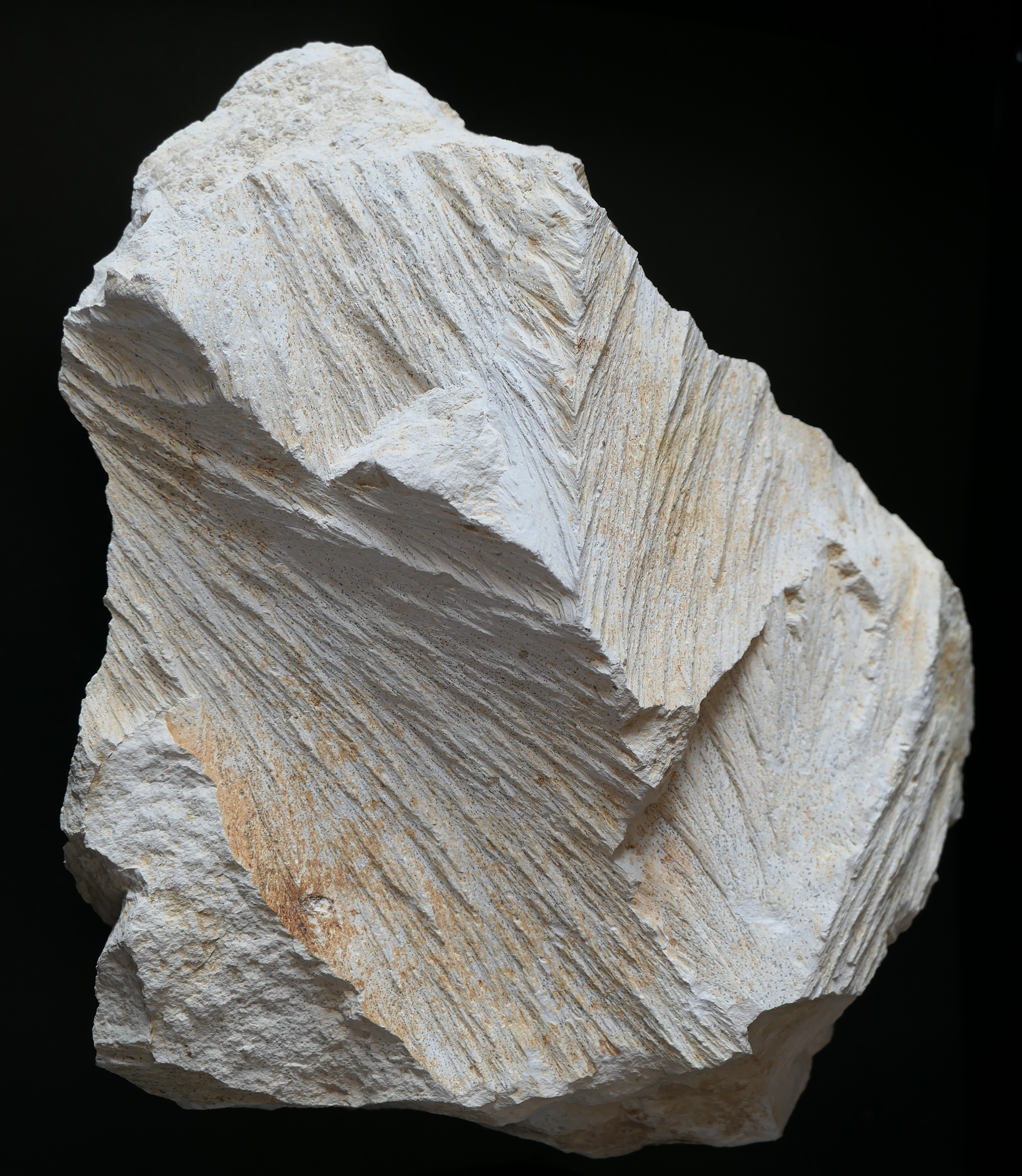 Strahlenkalk (Shatter cone) with different orintations. Width of Hand specimen: 17 cm.